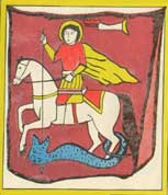 Banner with the Coat of Arms of all-Georgian Kingdom according to Prince Vakhushti's Atlas (c.1745) of Kingdom of Georgia